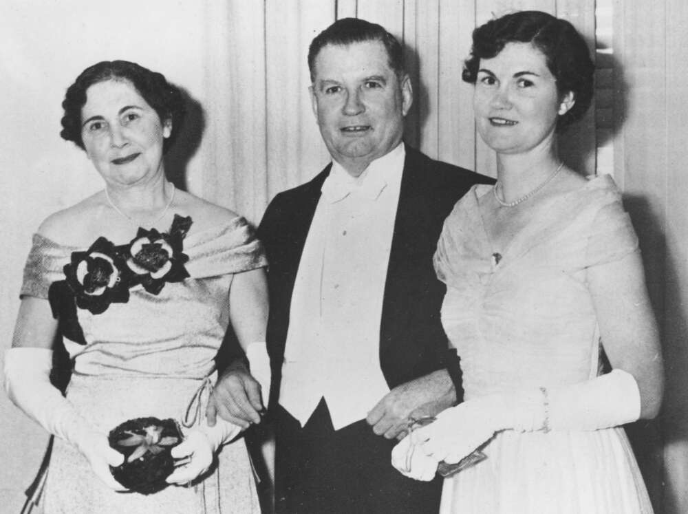 Arthur Fadden with his wife Ilma and daughter Betty at the Commonwealth Jubilee Ball in 1951